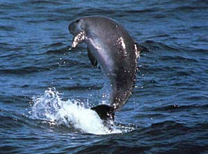 A dwarf sperm whale (Kogia sima) leaping out of the water.